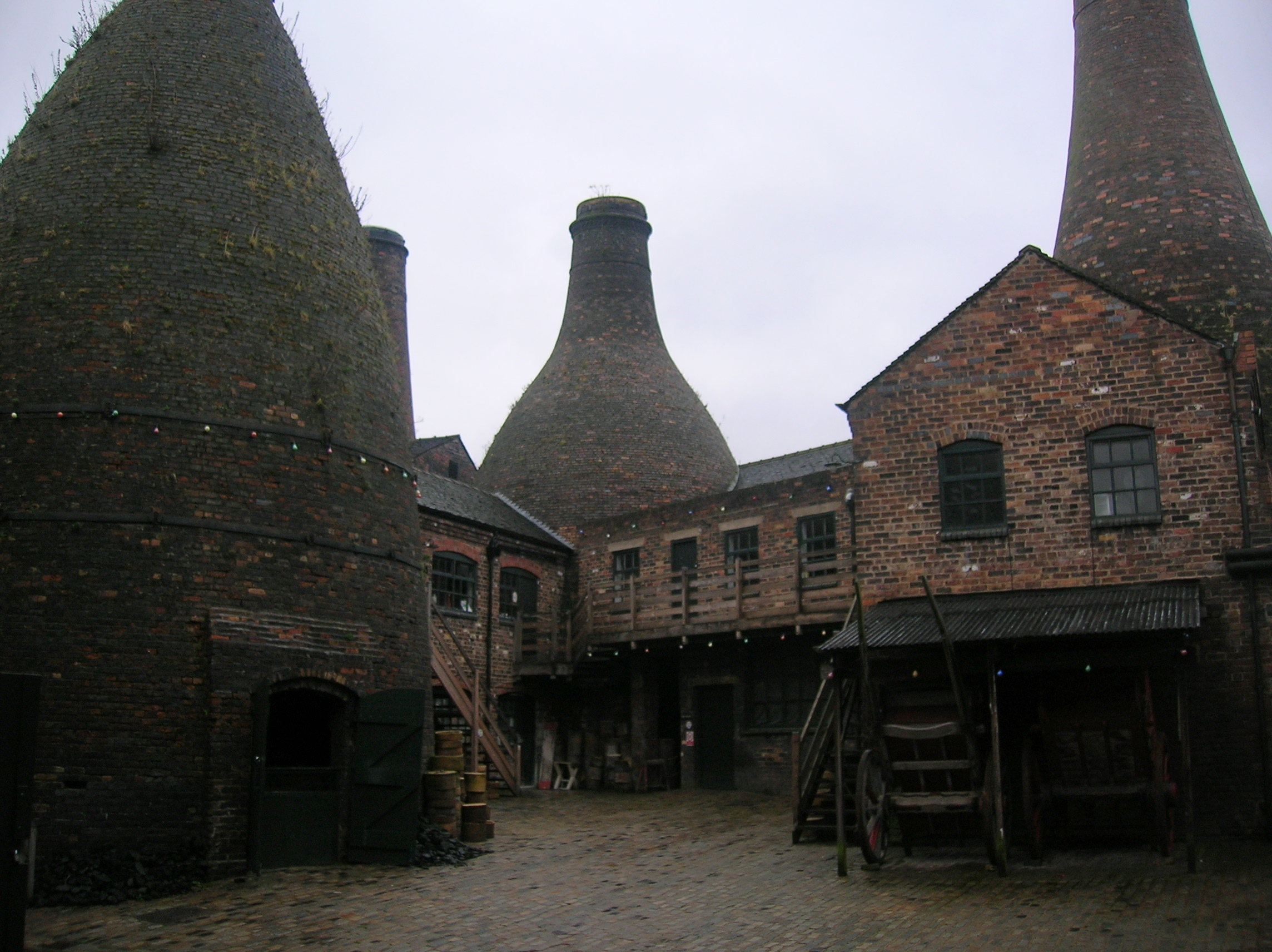 Inner courtyard of the Gladstone Potteries Museum, Stoke-on-Trent, UK